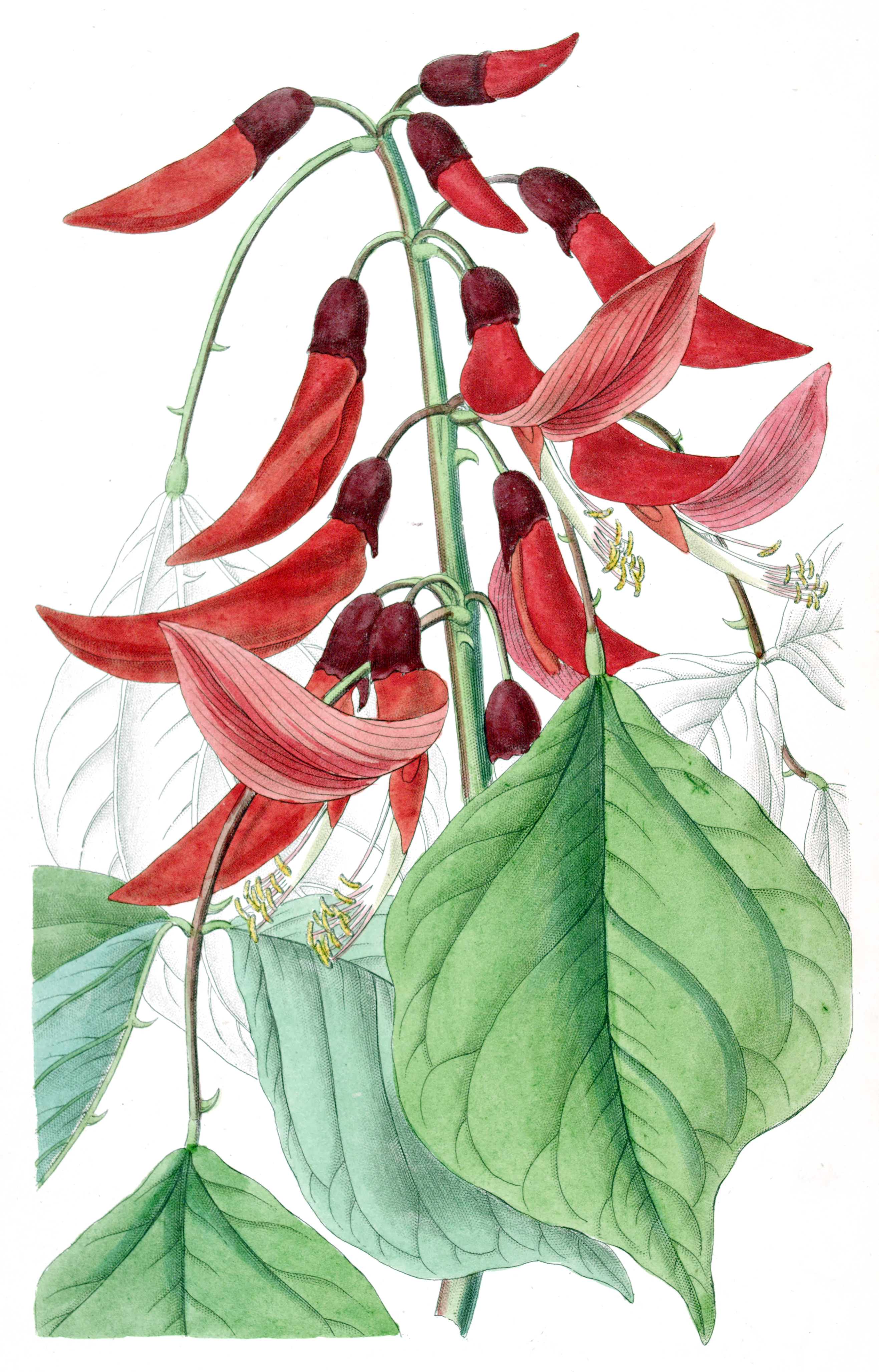 Erythrina ×bidwillii 'Camdeni' — Illustration from 'Edwards' Botanical register' (edited by John Lindley) April 1847, plate 9: 'Erythrina Bidwillii. Mr. Bidwill's Erythrina - Garden hybrid'.